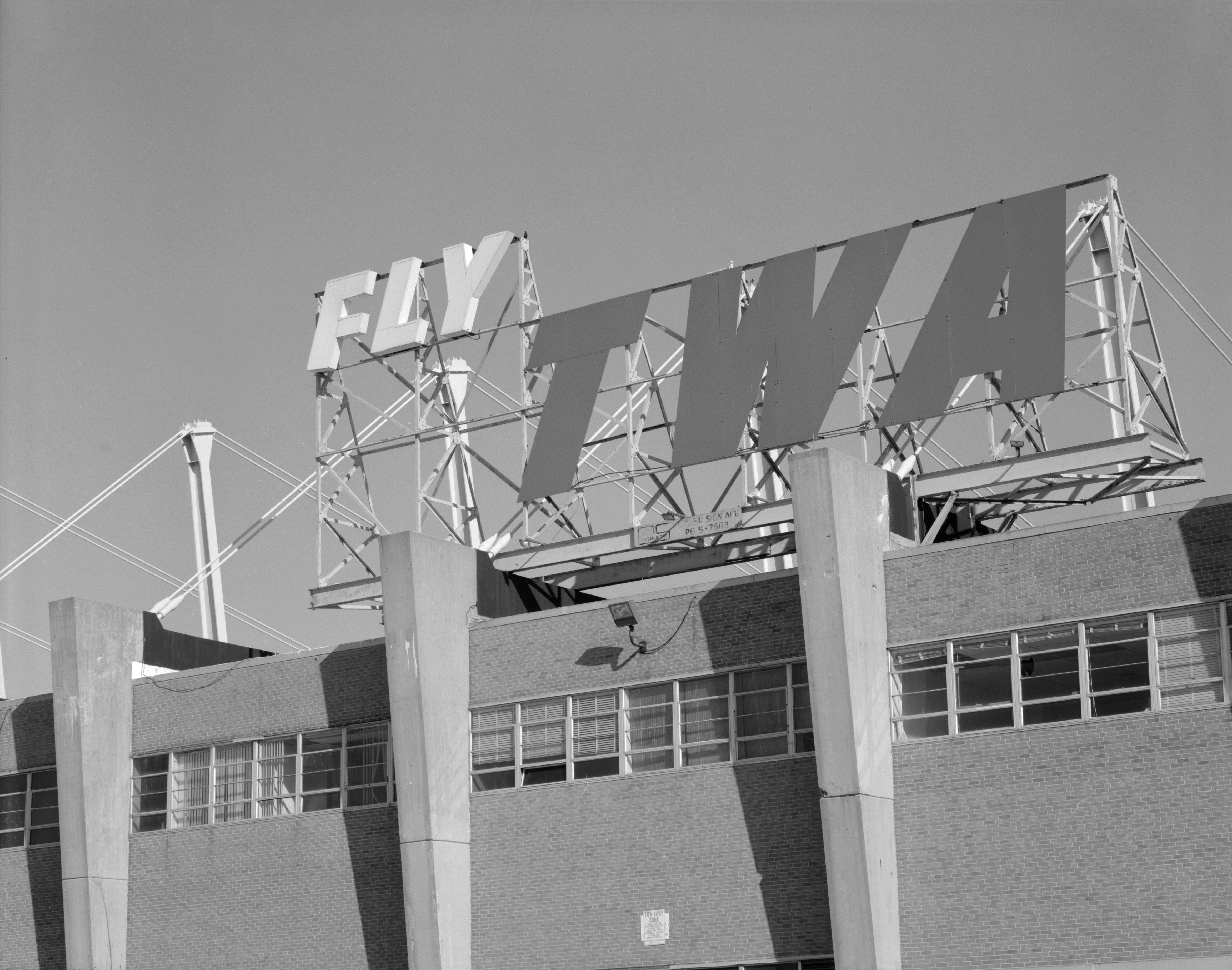 TWA Maintenance Hangar (demolished), South side of Tinicum Island Road, Philadelphia International Airport, Philadelphia, Philadelphia, PA